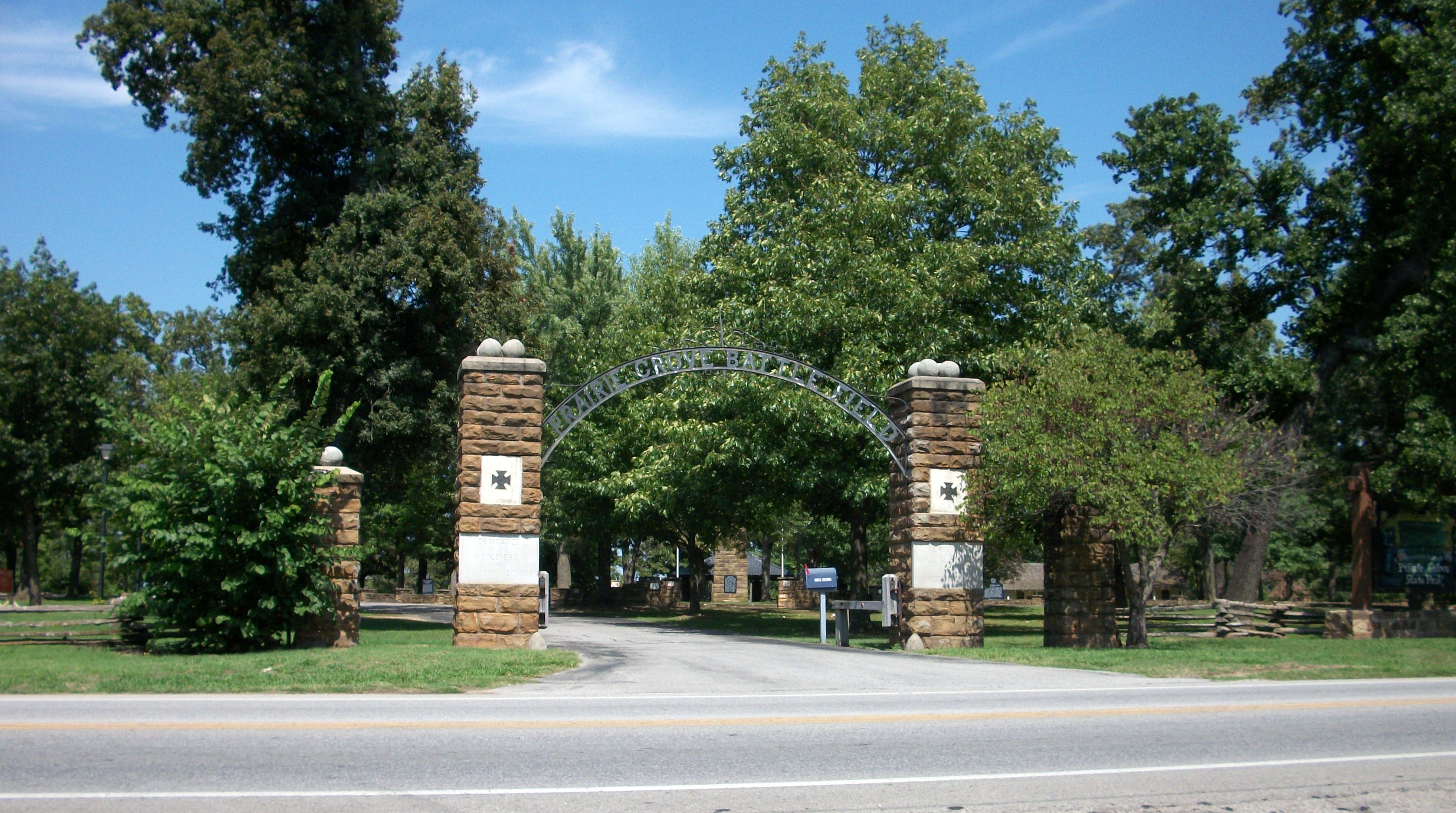 Enterance to Prairie Grove State Park in Prairie Grove, Arkansas.